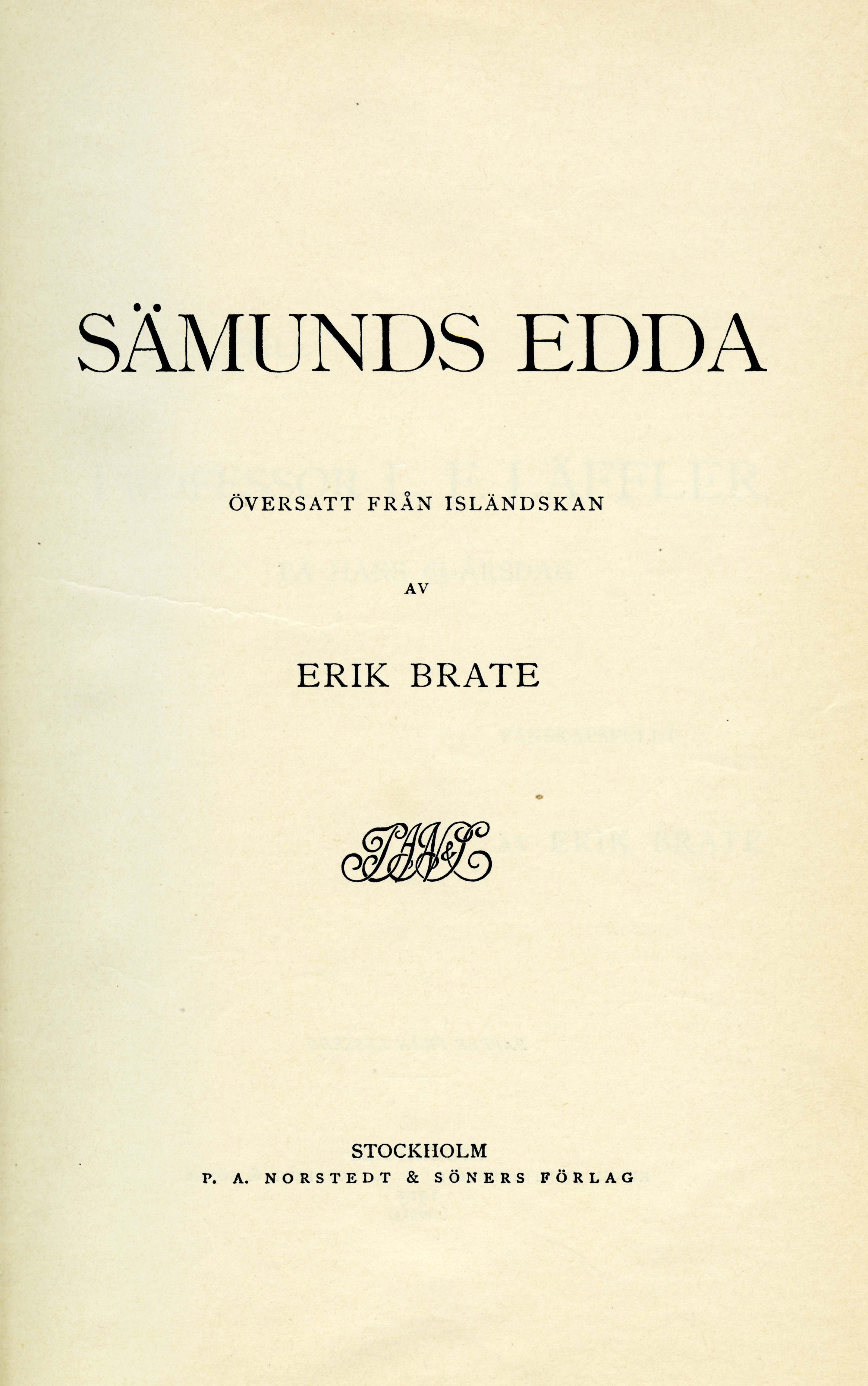 Title page for Sämunds Edda (1913) translated from the Icelandic by Erik Brate. First Edition. Printed in Stockholm by P. A. Norstedt & Söners Förlag on paper from Lessebo.